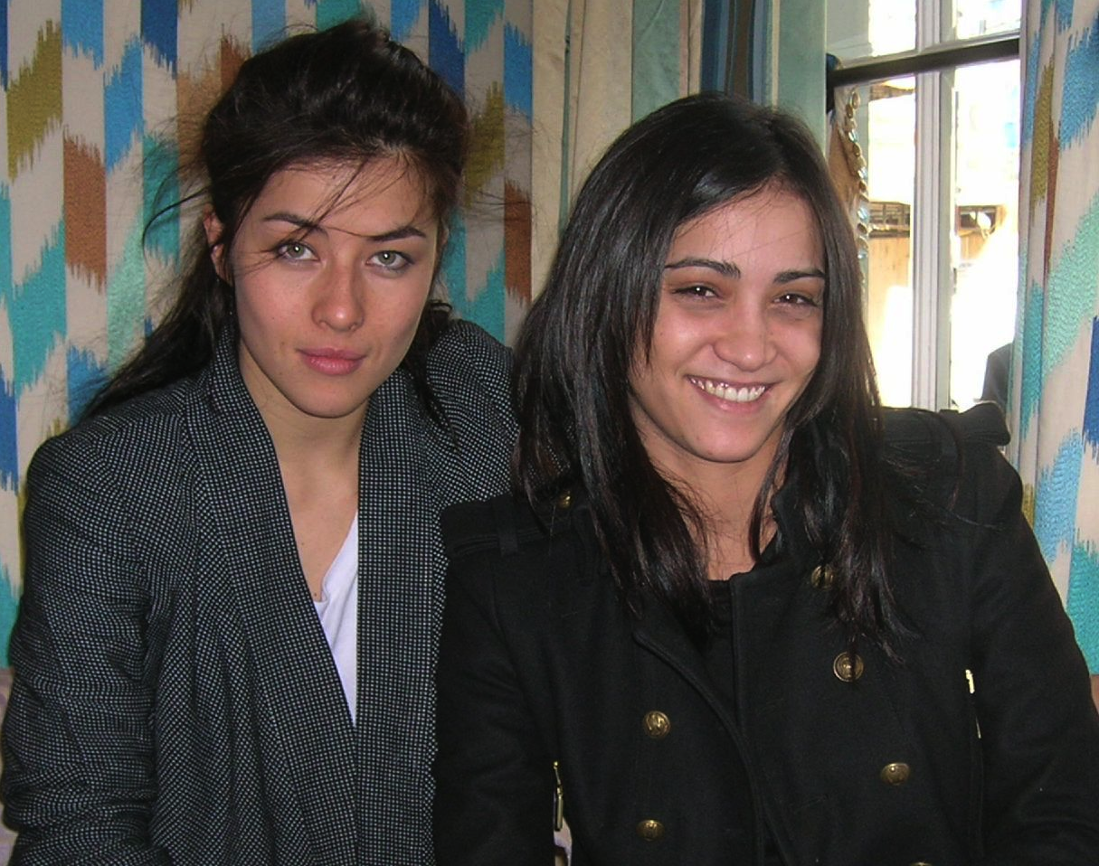 Mylene Jampanoi and Morjana Alaoui from the French film Martyrs